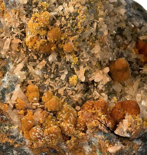 Tsumcorite, Quartz Locality: Tsumeb Mine (Tsumcorp Mine), Tsumeb, Otjikoto (Oshikoto) Region, Namibia (Locality at ) Size: 6.4 x 5.4 x 4.4 cm. Tsumcorite is one of the signature mineral species rarities for which the Tsumeb Mine is renowned and is also the Type Locality. Tsumcorite is a lead, zinc, iron arsenate and is named after the Tsumeb (Tsum) Corporation (Cor) Mine. Yellow-brown and orange-brown radial clusters of tsumcorite are richly and aesthetically scattered on the 3-dimensional matrix and are complimented by a multitude of tiny quartz crystals. Quartz is uncommon at Tsumeb, so this is not only a fine rarity, but also an outstanding combination rarity.